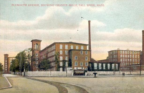 Plymouth Avenue, showing Granite Mills, Fall River, Massachusetts